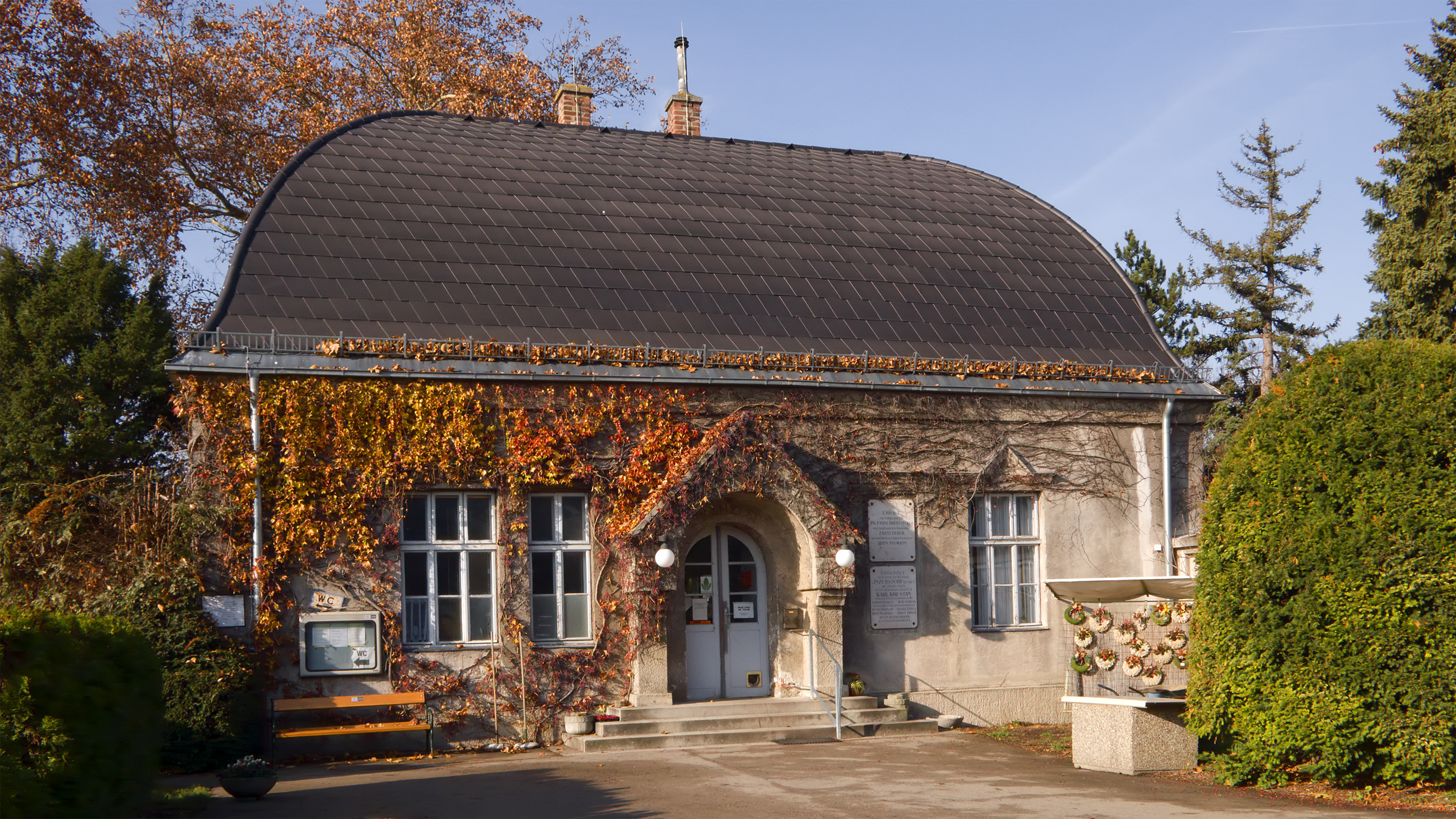 Inzersdorfer Friedhof in Vienna Liesing